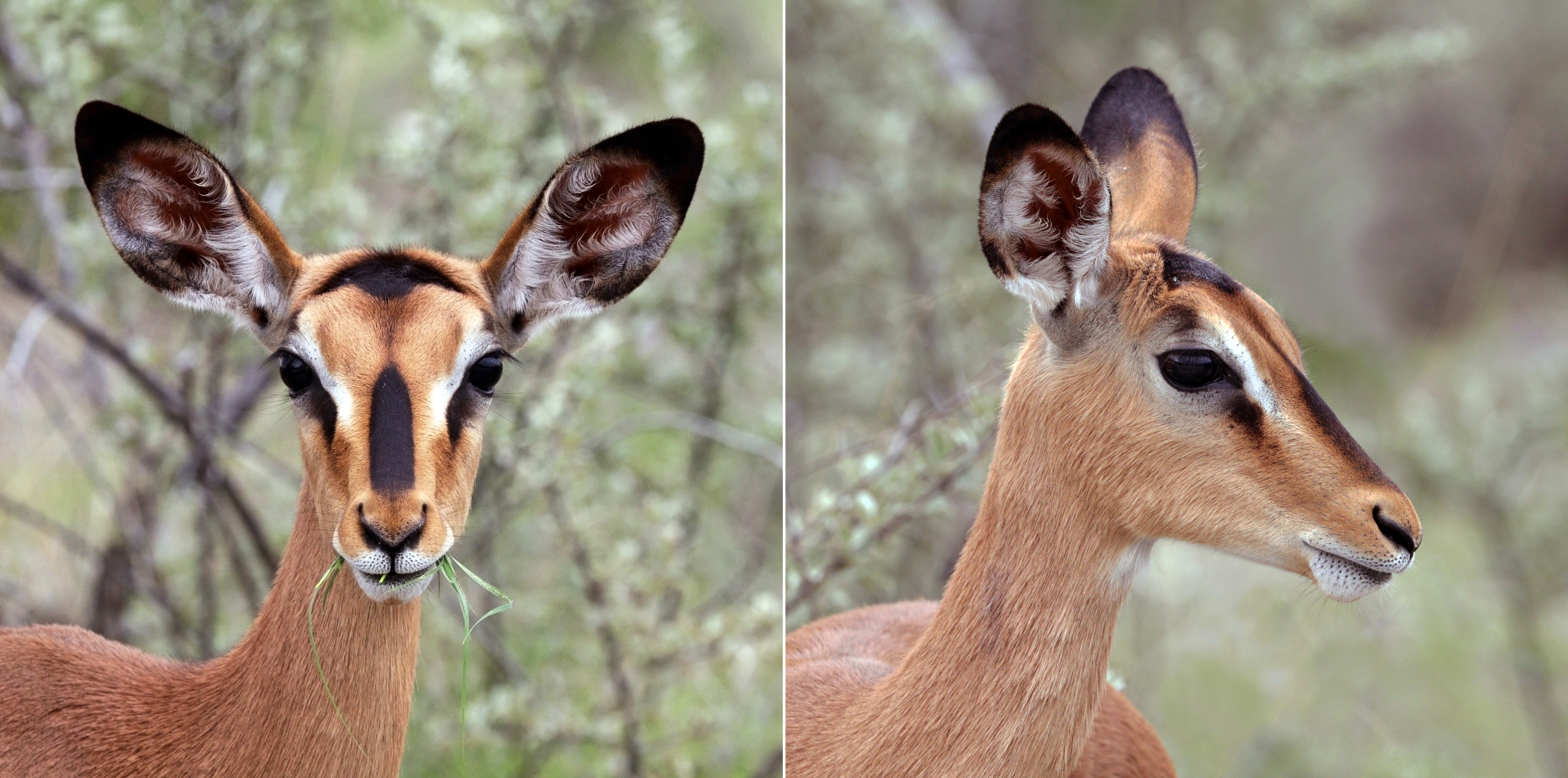 Black-faced impala (Aepyceros melampus petersi) female composite, Etosha National Park, Namibia